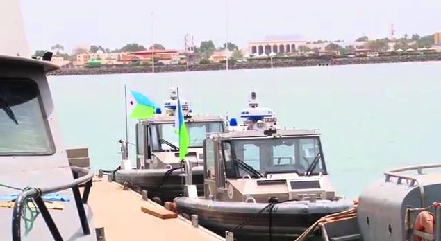 Djiboutian Navy at naval base in Djibouti City.